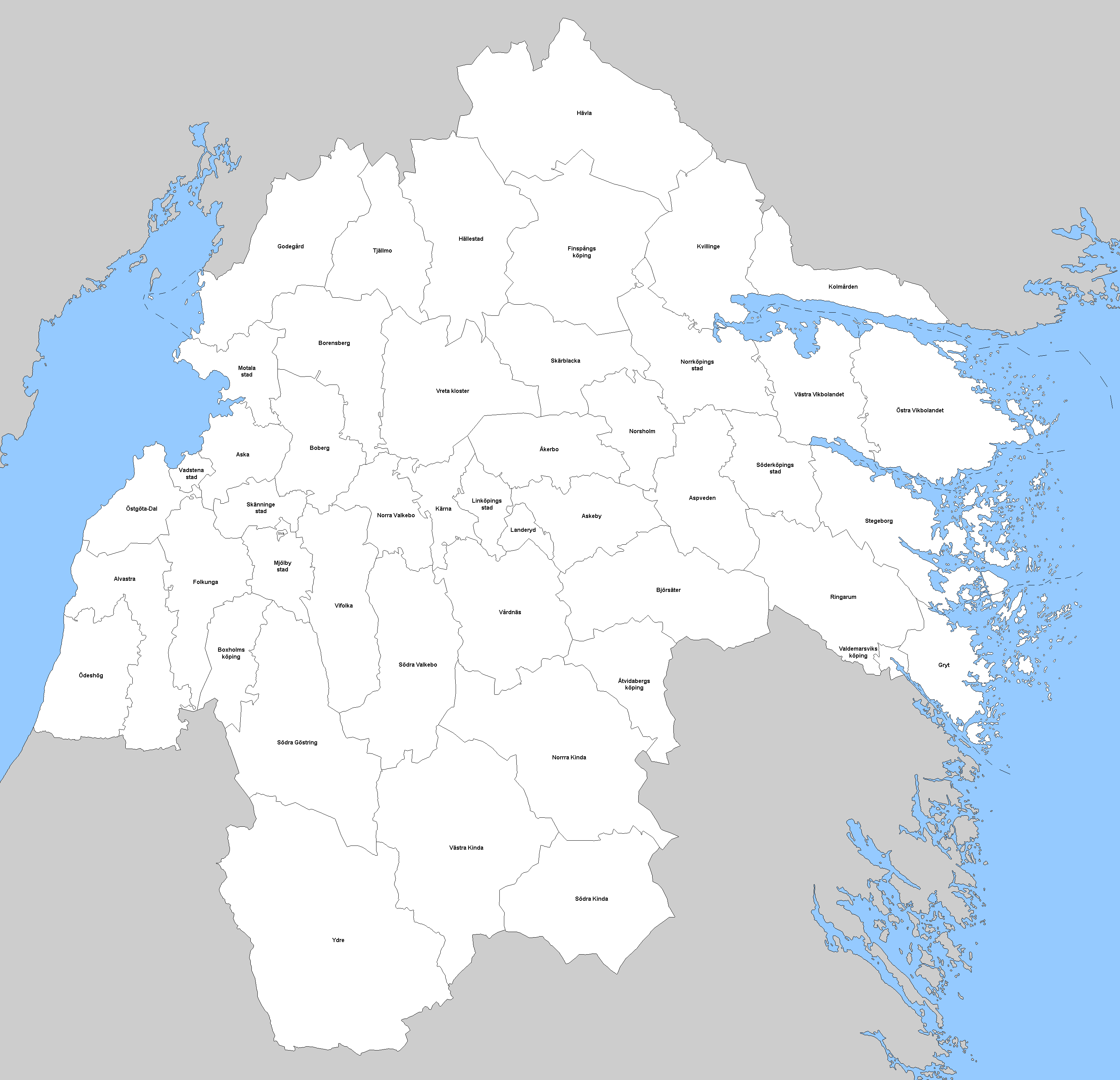 Old municipalities in Östergötlands län 1952